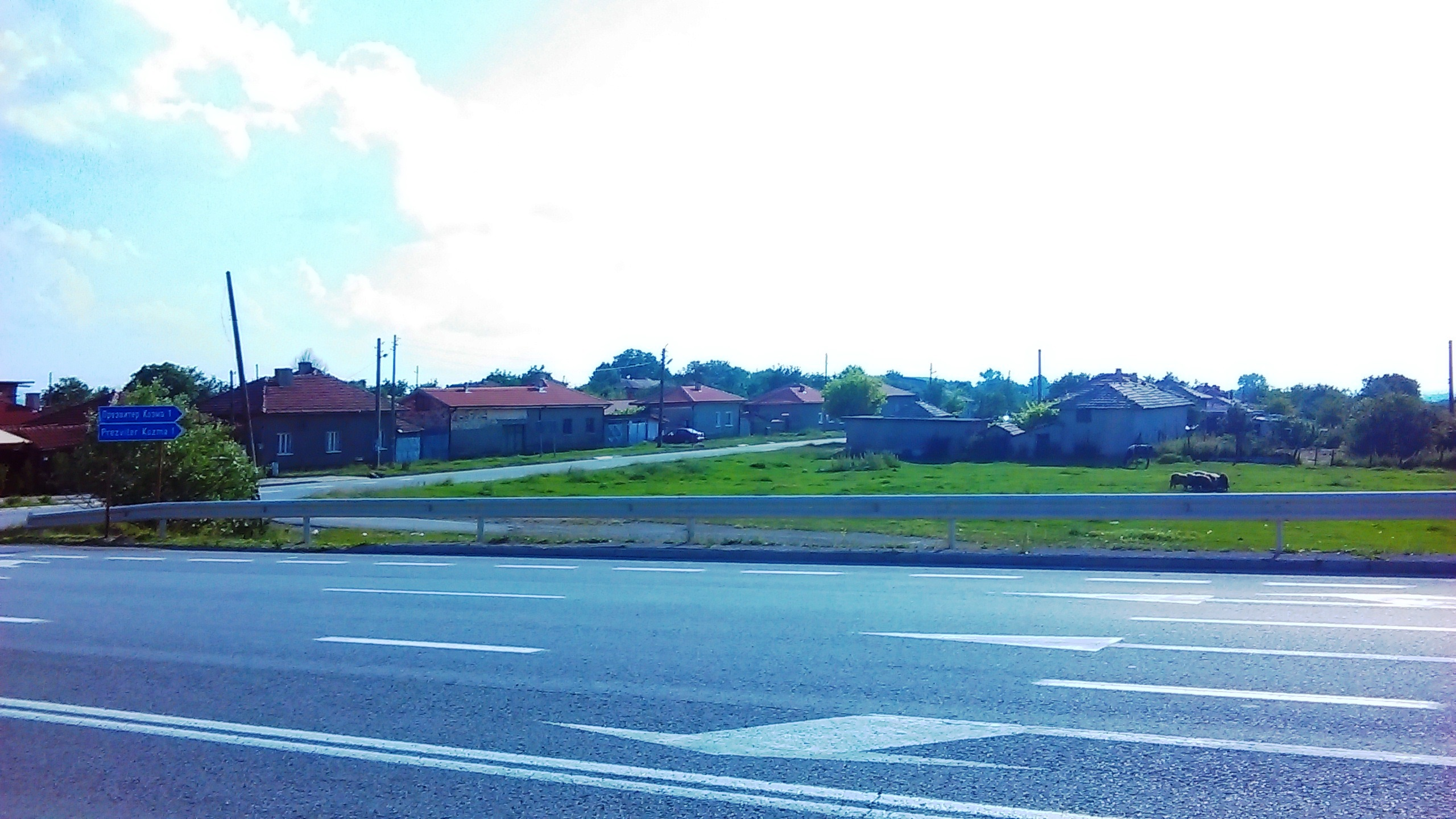 Prezviter Kozma, a village in targovishte province, Bulgaria